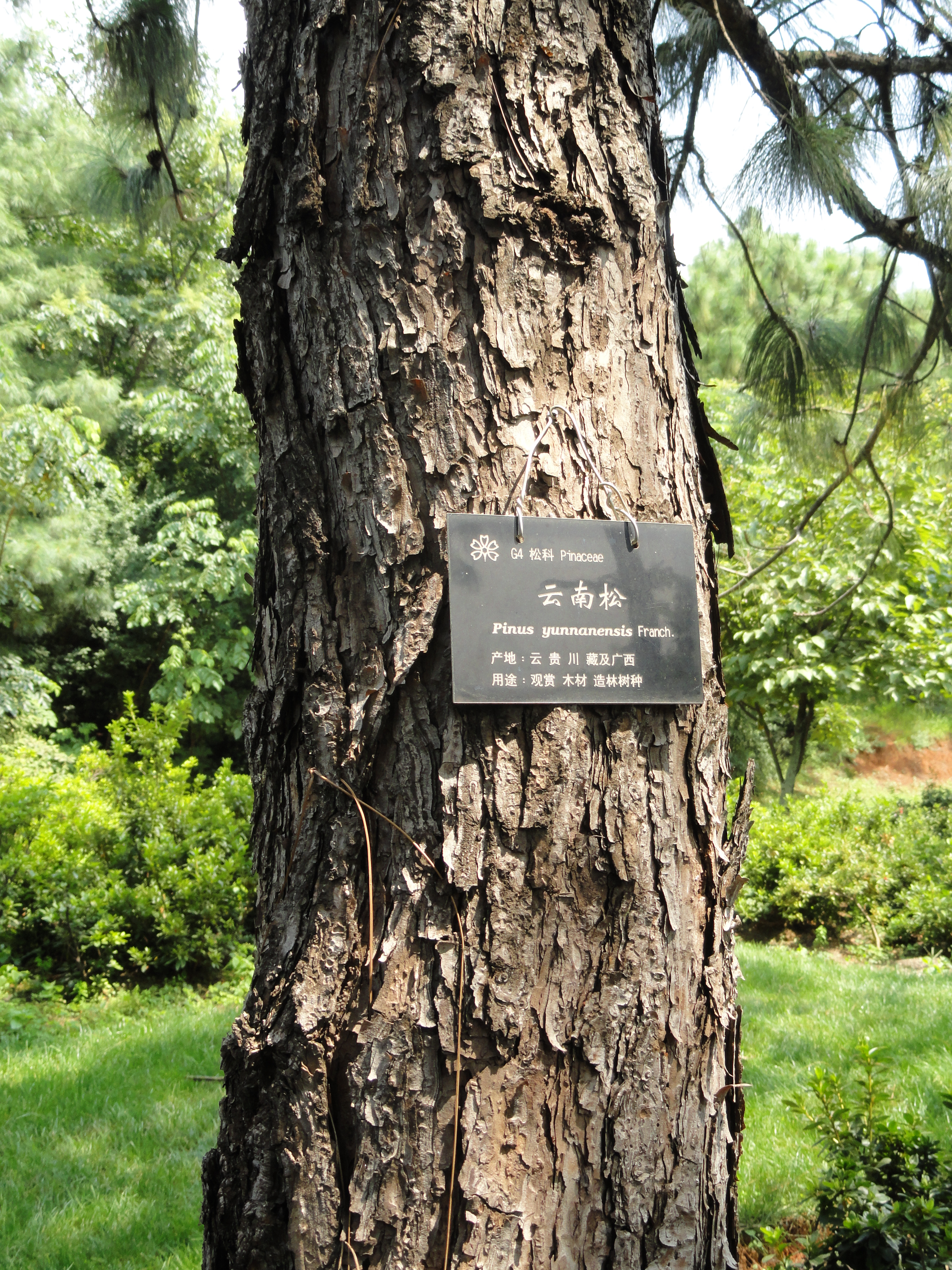 Plant specimen in the Kunming Botanical Garden, Kunming, Yunnan, China.